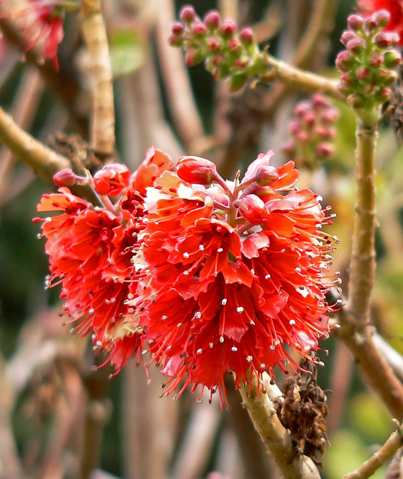 Photo of Greyia radlkoferi at the University of California Botanical Garden